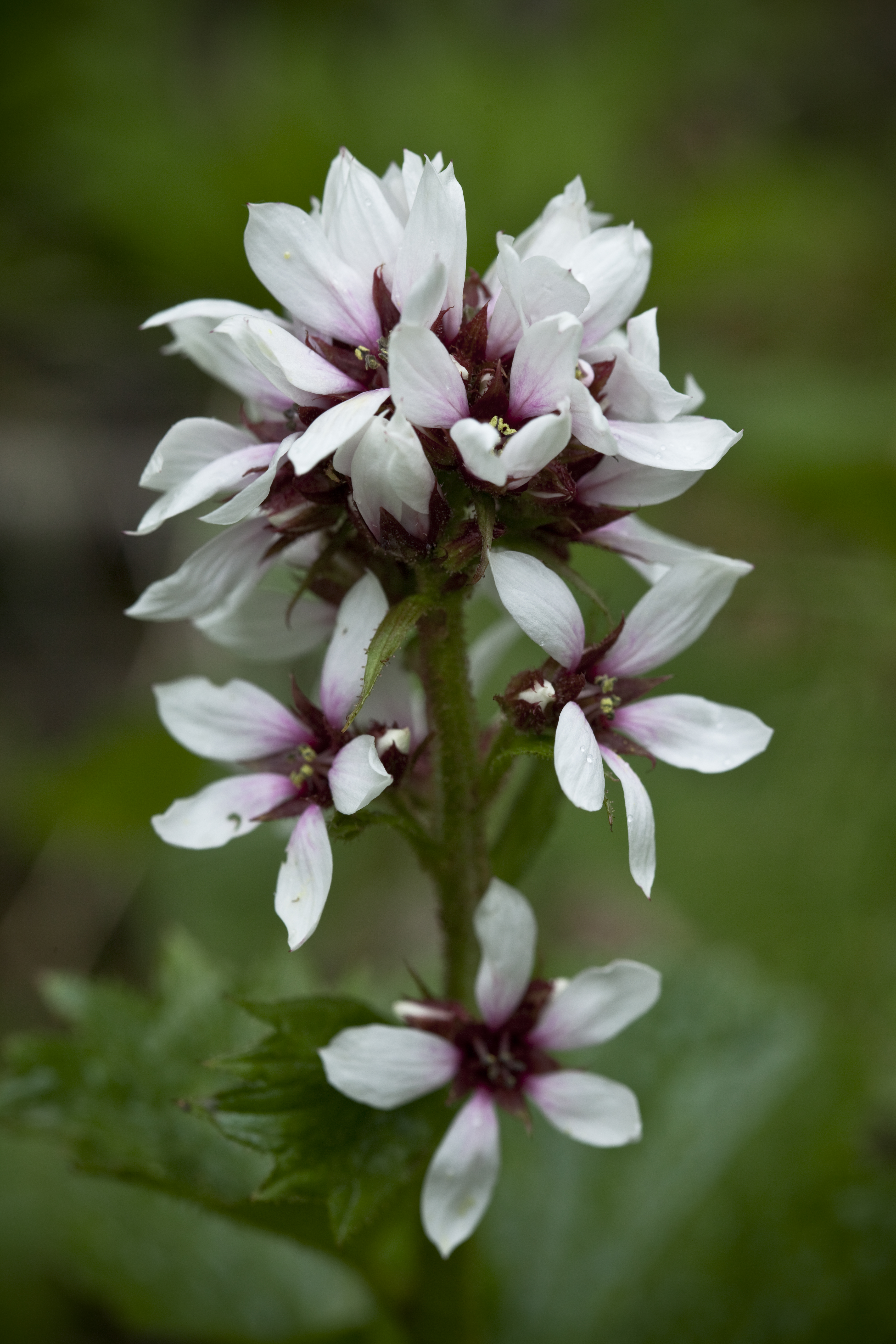 Boykinia richardsonii, Denali National Park and Preserve, AK, USA